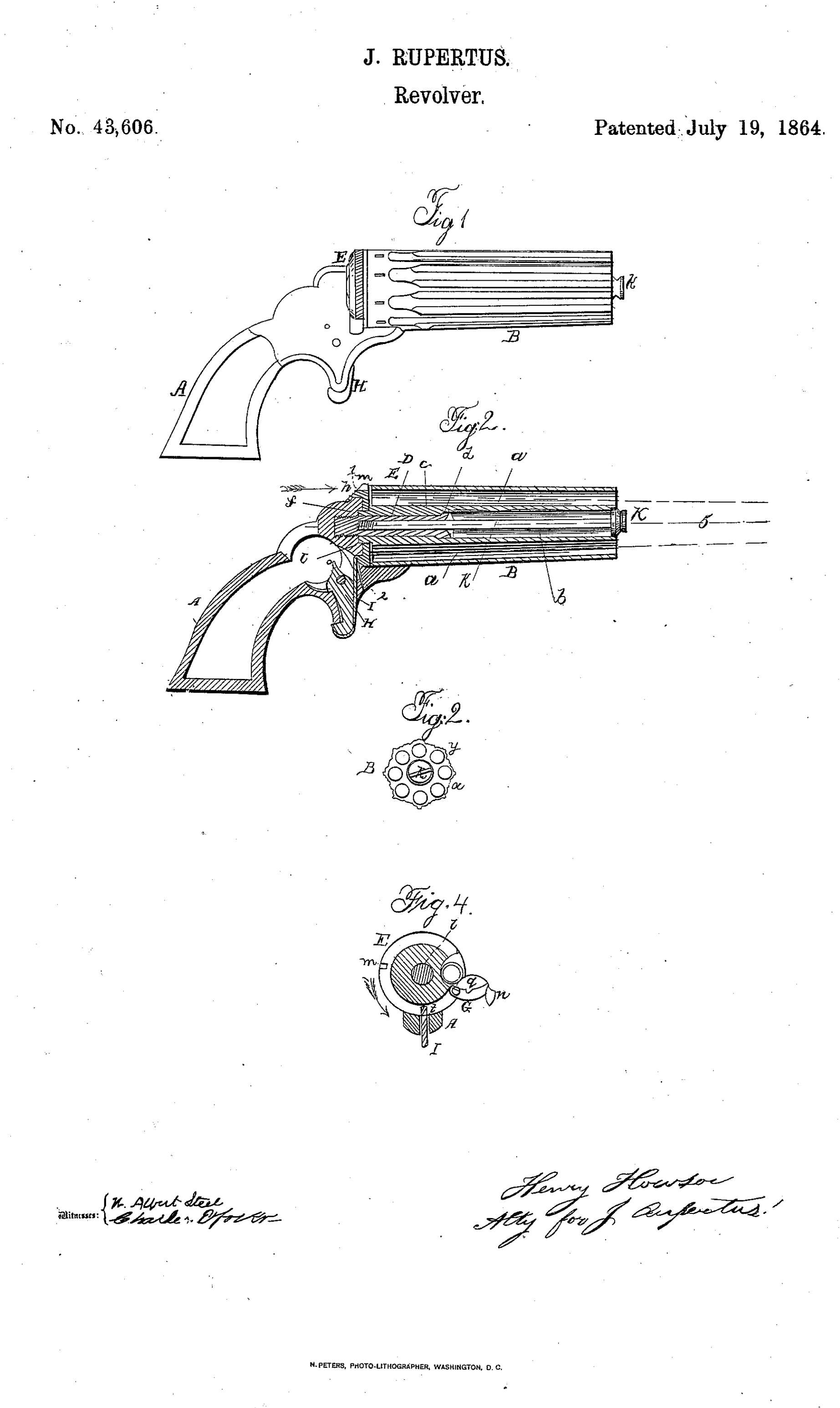 Rupertus Jacob Patent: US43606 (A) (specially designated to Rupertus "Pepperbox")